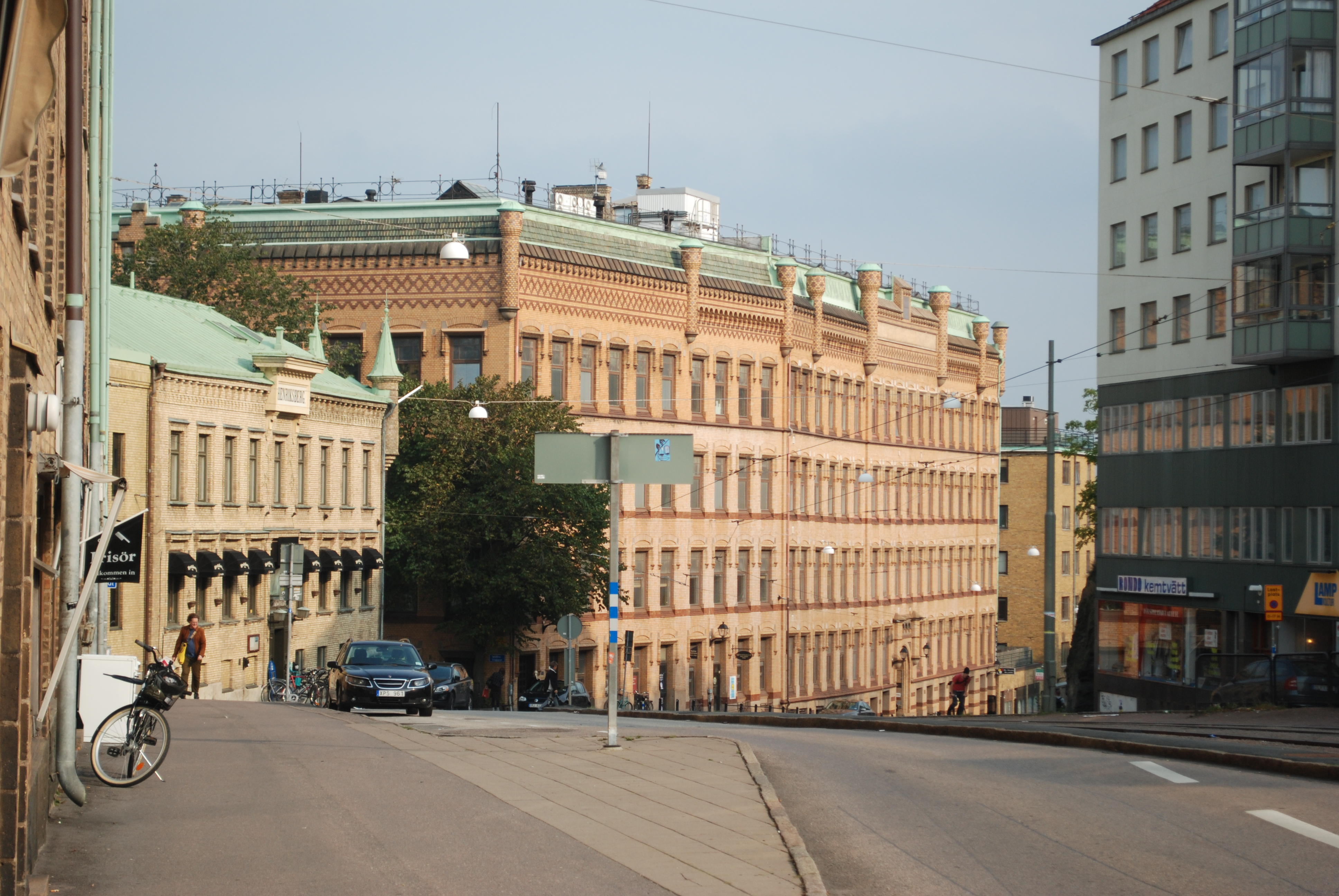 Stigbergsliden med J A Wettergrens industribyggnad. Arkitekt Louis Enders